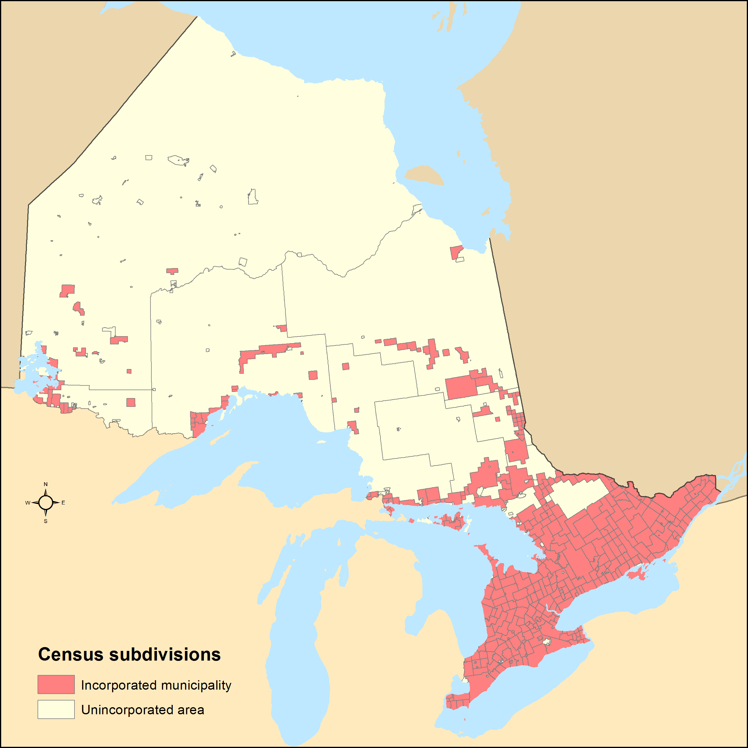 Distribution of Ontario's incorporated municipalities and unincorporated areas utilizing Statistics Canada's census subdivisions from the 2011 census